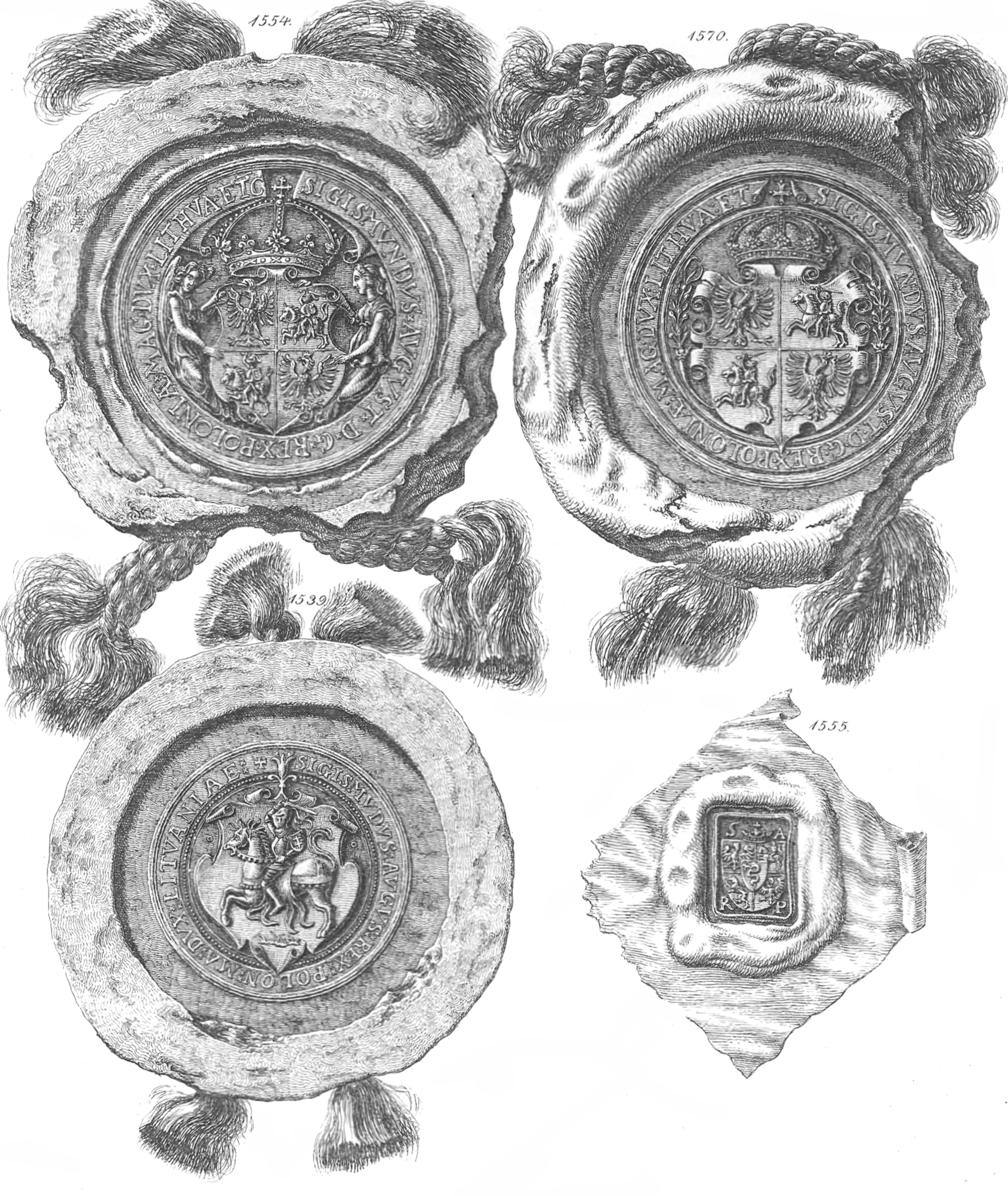 Zygmunt II August seals